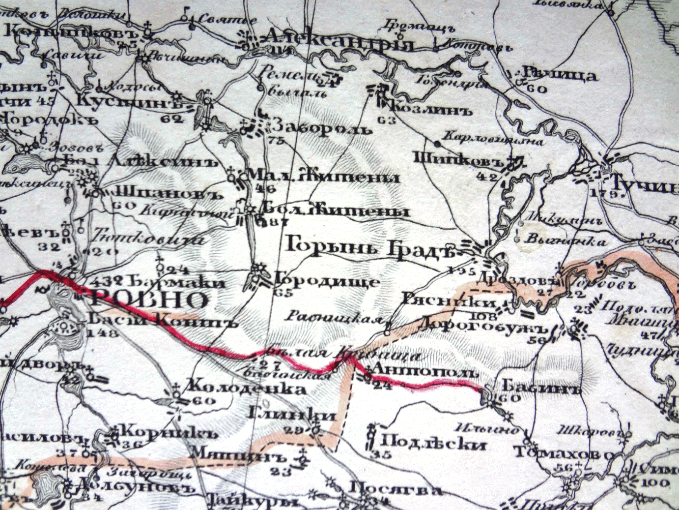 Мапа Волинської губернії із зазначенням м. Гориньград (у центрі), 1849 р. (Державний історичний архів України, Ф. 2063, № Оп. 1, Спр. 149)